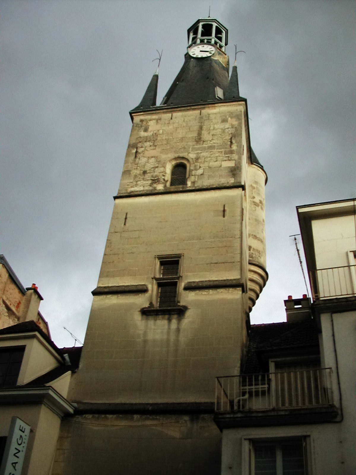 La tour Balhand. Taken at 16pm, in Château-Thierry with a Nikon Coolpix 775.